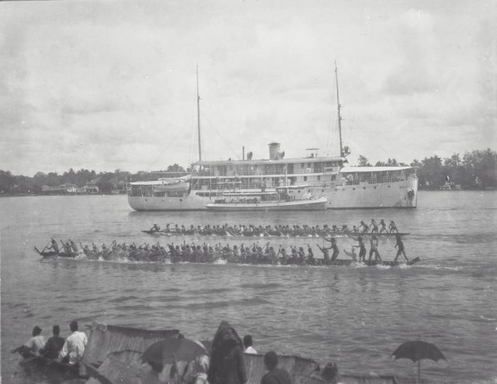 Rowing-matches with proas on the river in front of the ship in which civil servants arrived for a visit to the Sultan of Bulungan